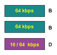 Is an image made by me.